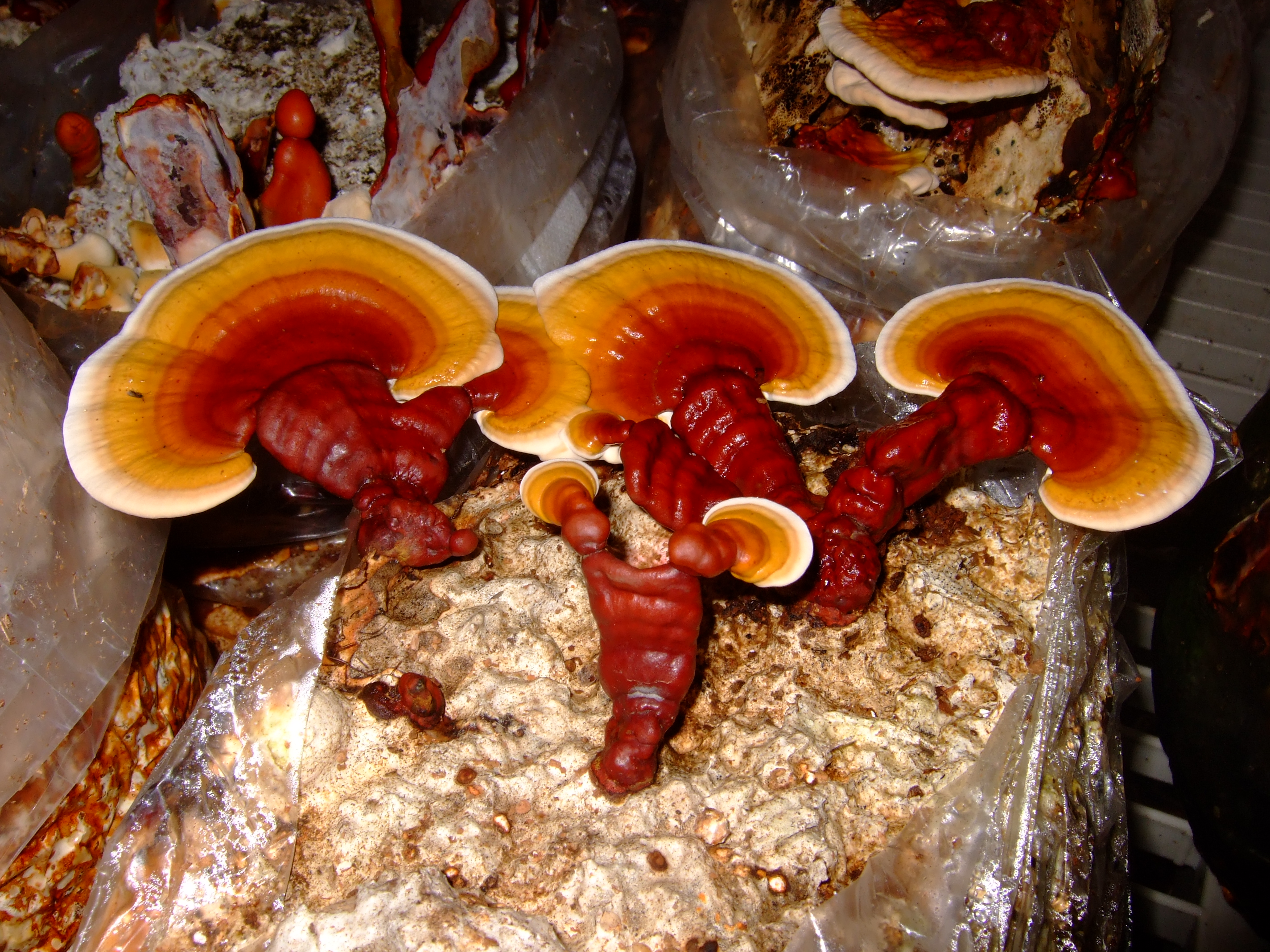 This is a warm weather species that requires a higher temperature to fruit.